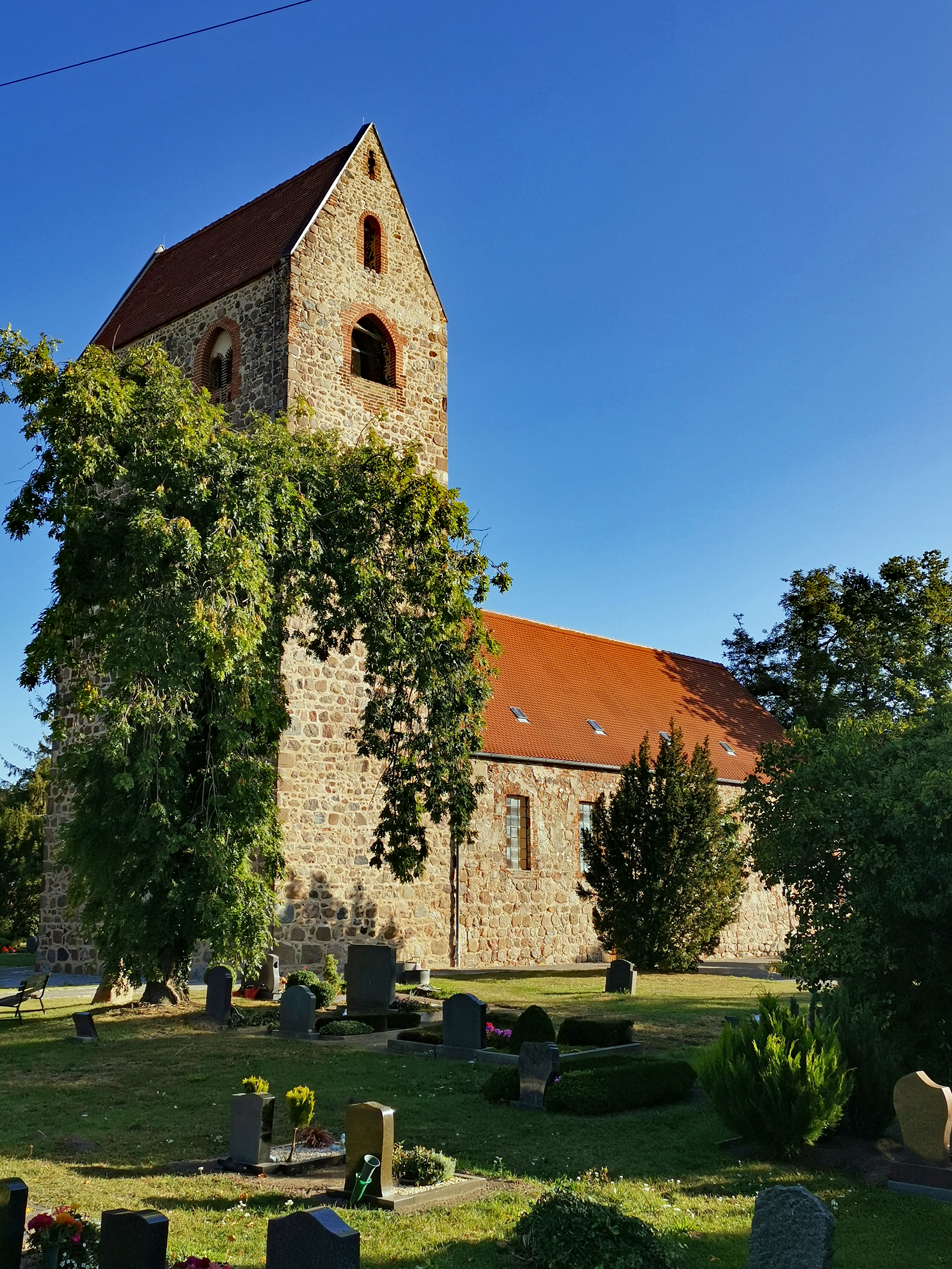 Kirche Krusemark (Saxony-Anhalt, Germany)